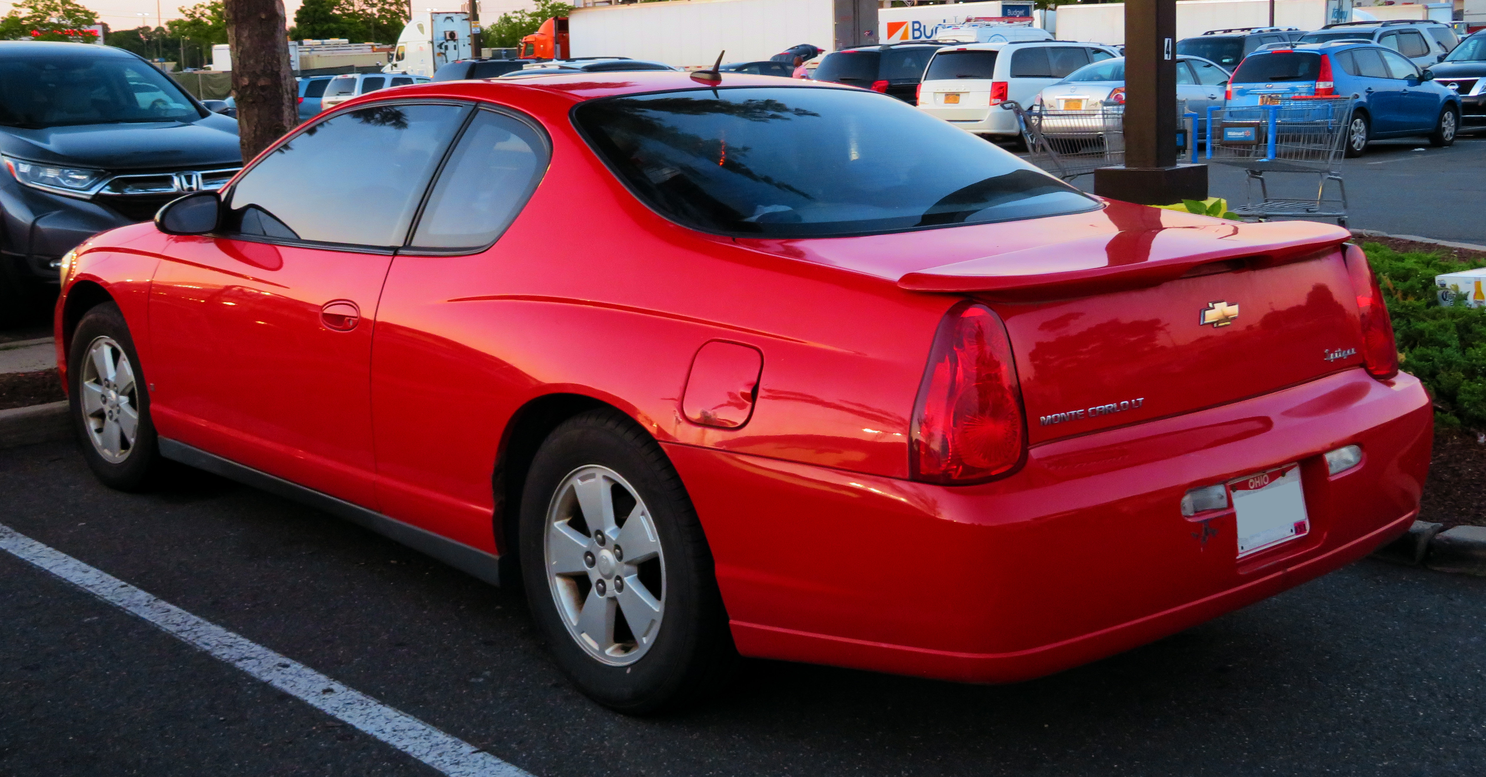 A 2006 Chevrolet Monte Carlo photographed in Queens, New York, USA